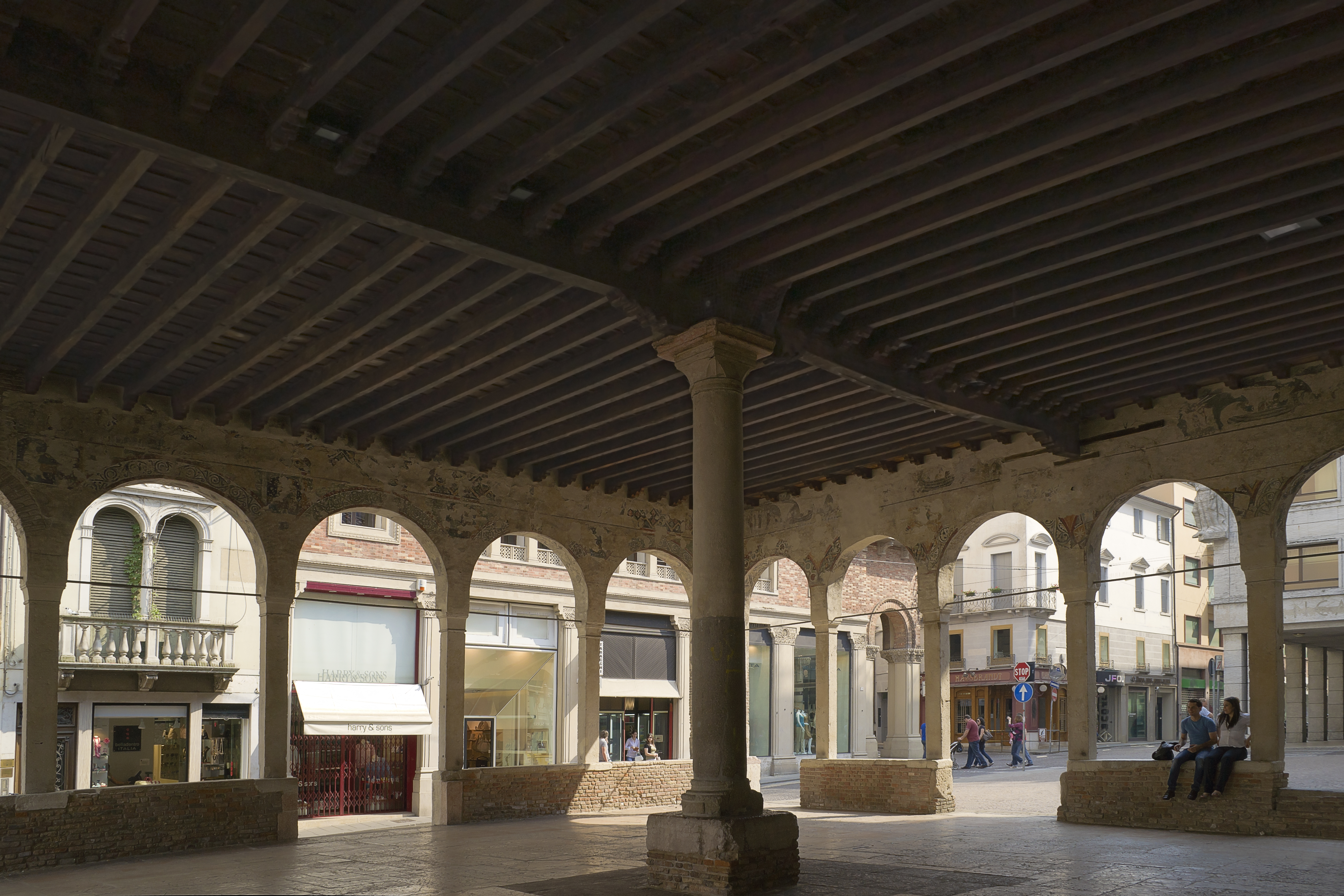 La Loggia dei Cavalieri of Treviso (interior)